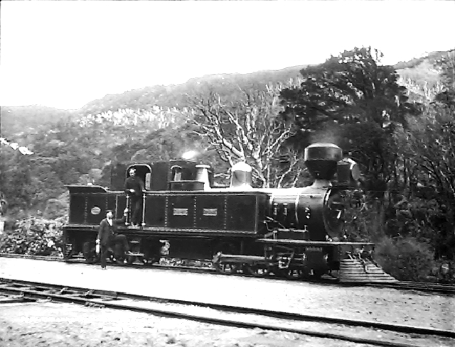 NZR R class Locomotive at the Summit, Rimutaka Incline railway between Featherston and Wellington New Zealand Note from elsewhere: "The largest engine on the Rimutaka"